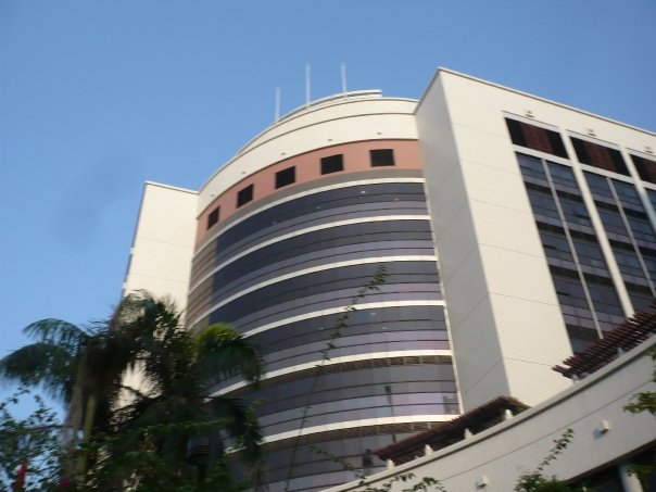 GBH Hospital